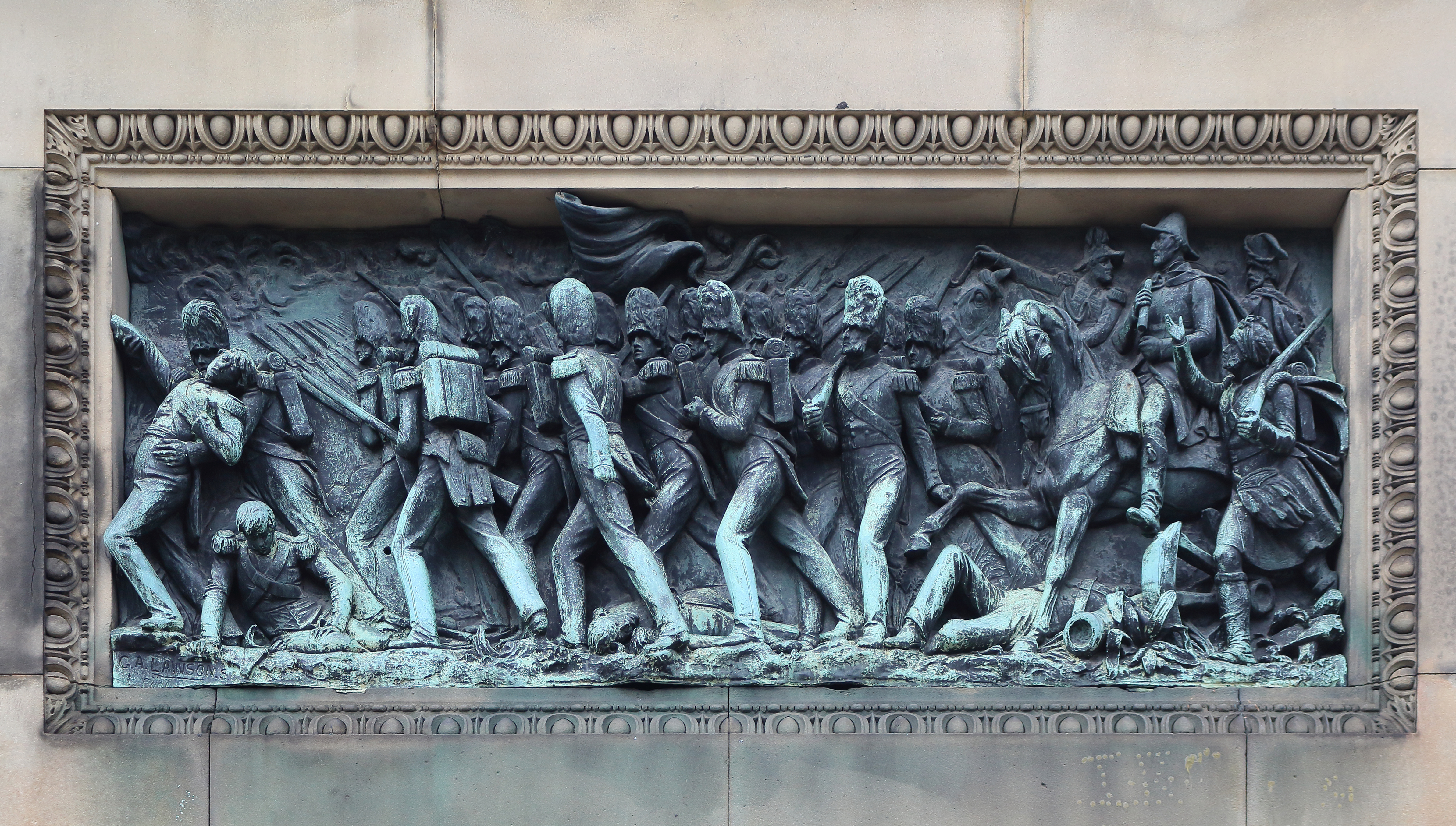 Front panel on Wellington's column, Liverpool, depicting battle of Waterloo with Wellington leading from the rear.